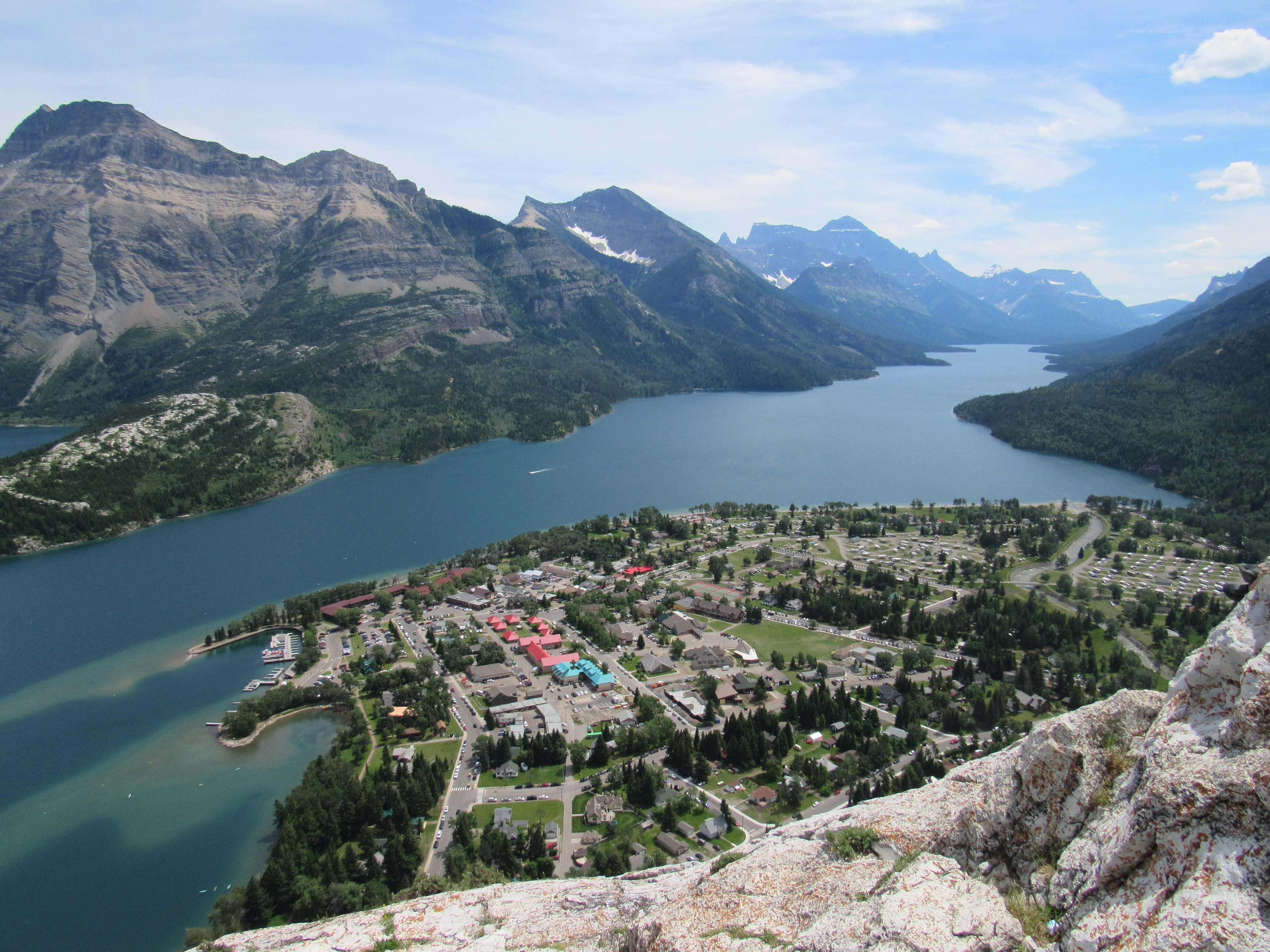 Waterton Lakes National Park in Alberta,, I took this photo from bear's hump